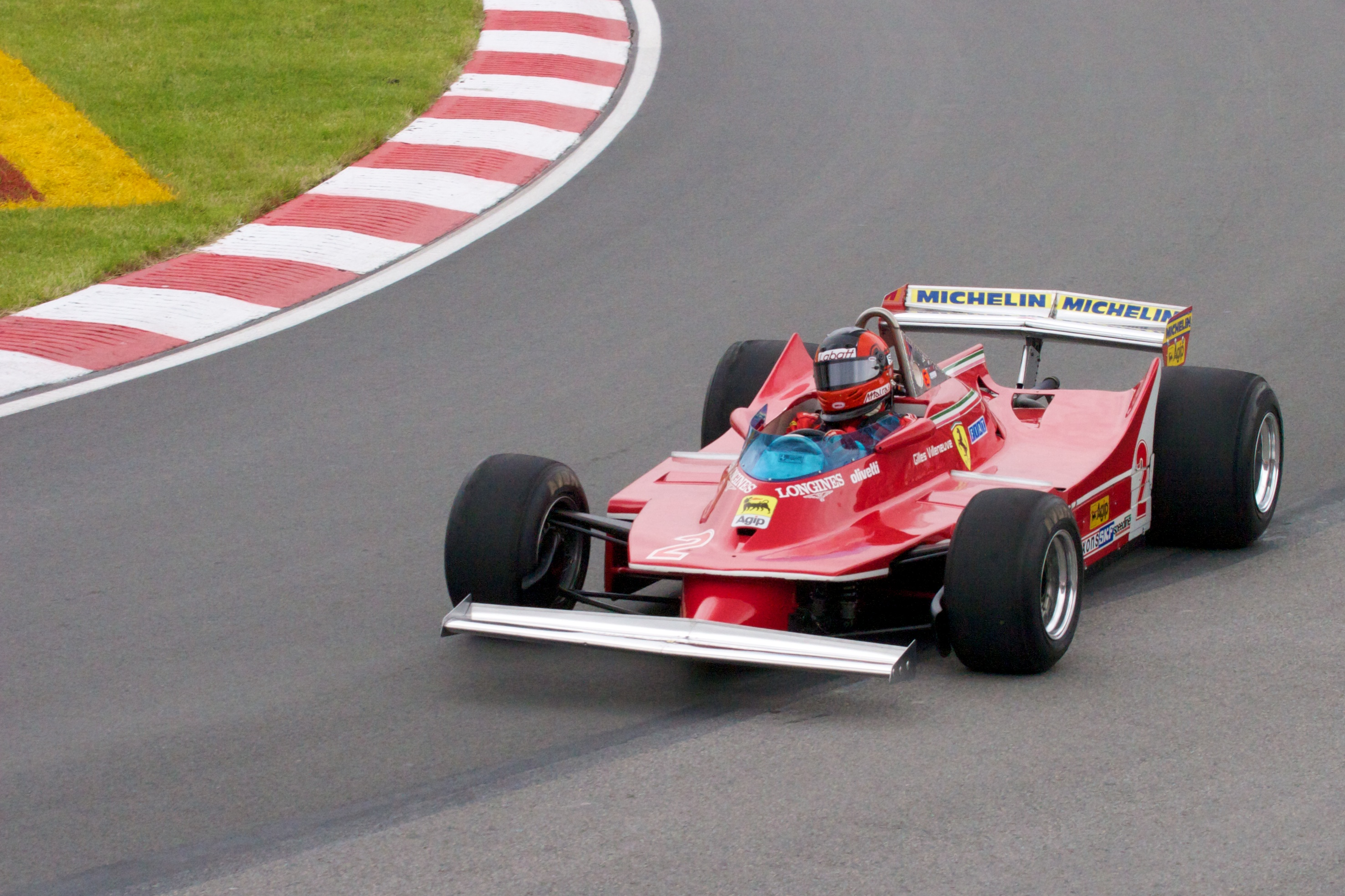 Gilles Villeneuve's Ferrari 312T5 at the Histric race during the 2010 Canadian GP.